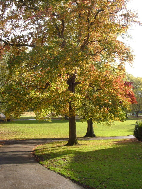 Belmont Park, Exeter The park was opened in 1886. This view is from the northern side, not far from the Blackboy Road entrance.